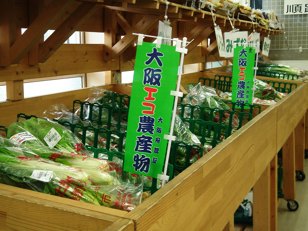 Osaka Eco Agricultural Products sales style at Higashiosaka City, Osaka, Japan